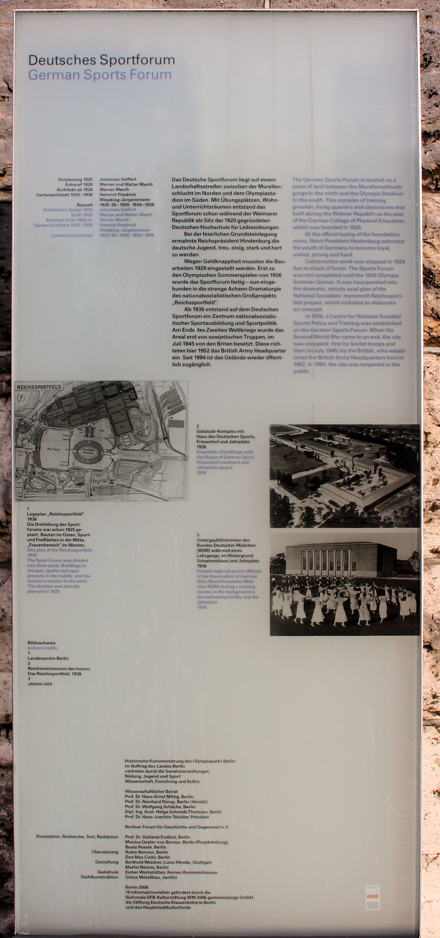 Memorial plaque, Deutsches Sportforum, Am Glockenturm , Berlin-Westend, Germany Koordinate:52°30′50″N 13°13′50″E / 52.51389°N 13.23056°E